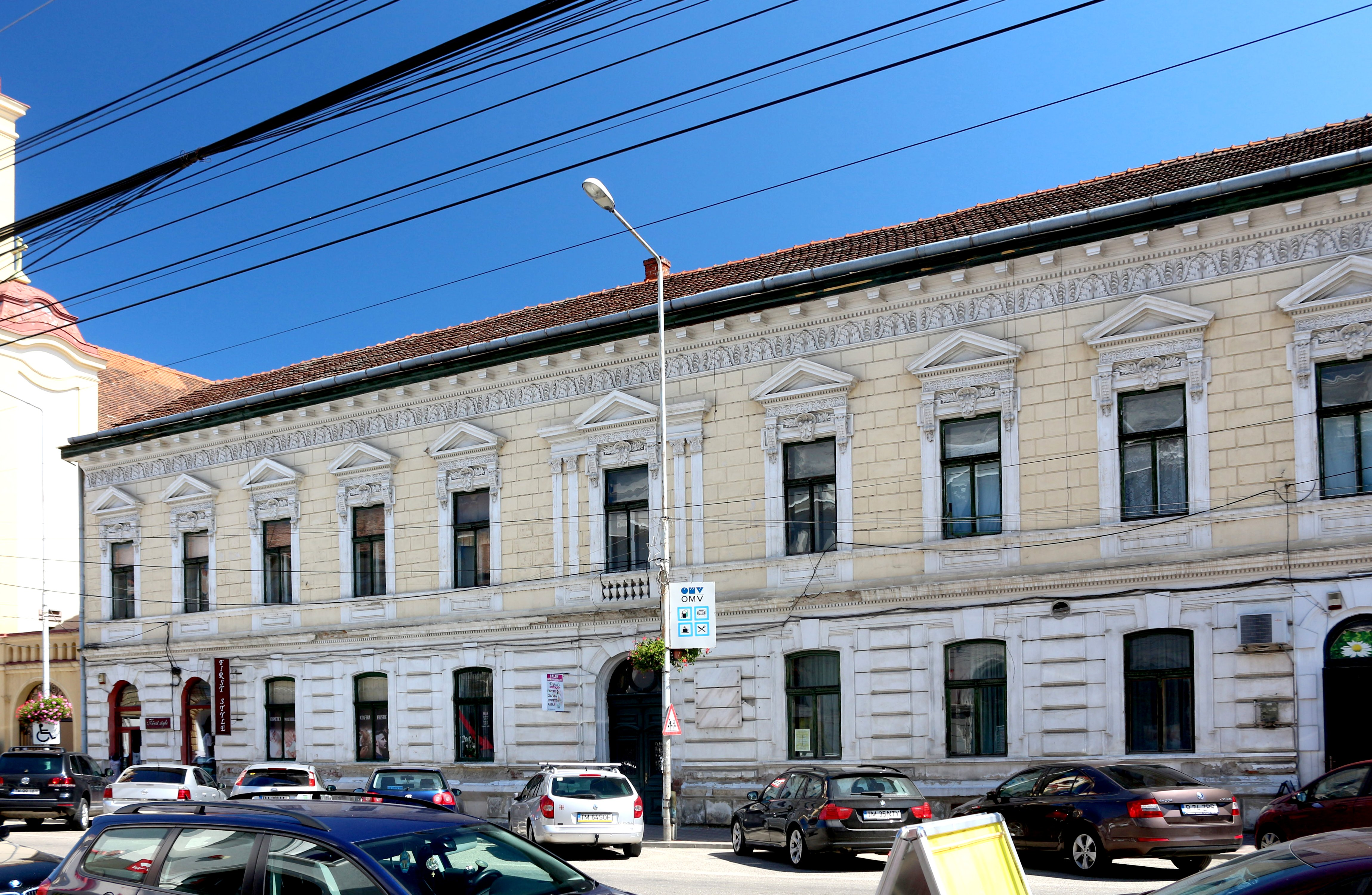 The cloister of the Minorites, Bucegi St., no. 4, Lugoj, Romania, built 1733.